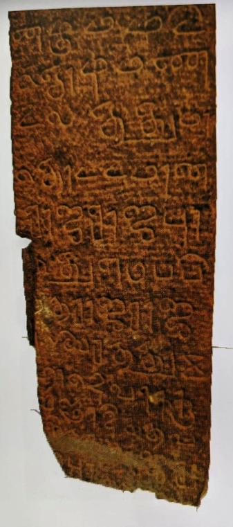 rajaraja tiruketiswaram